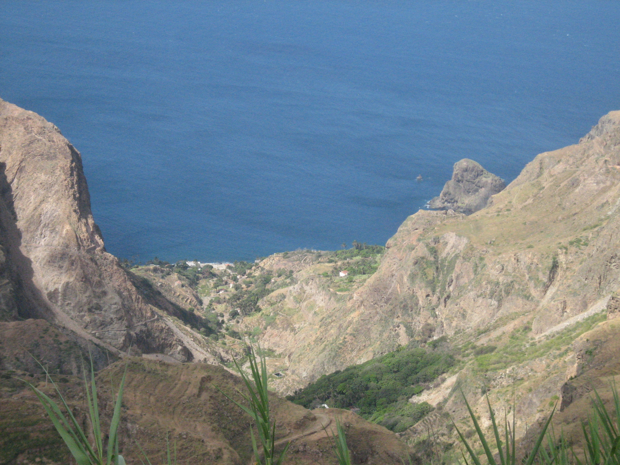 The valley of Fajã de Água leading down to the Atlantic coast.